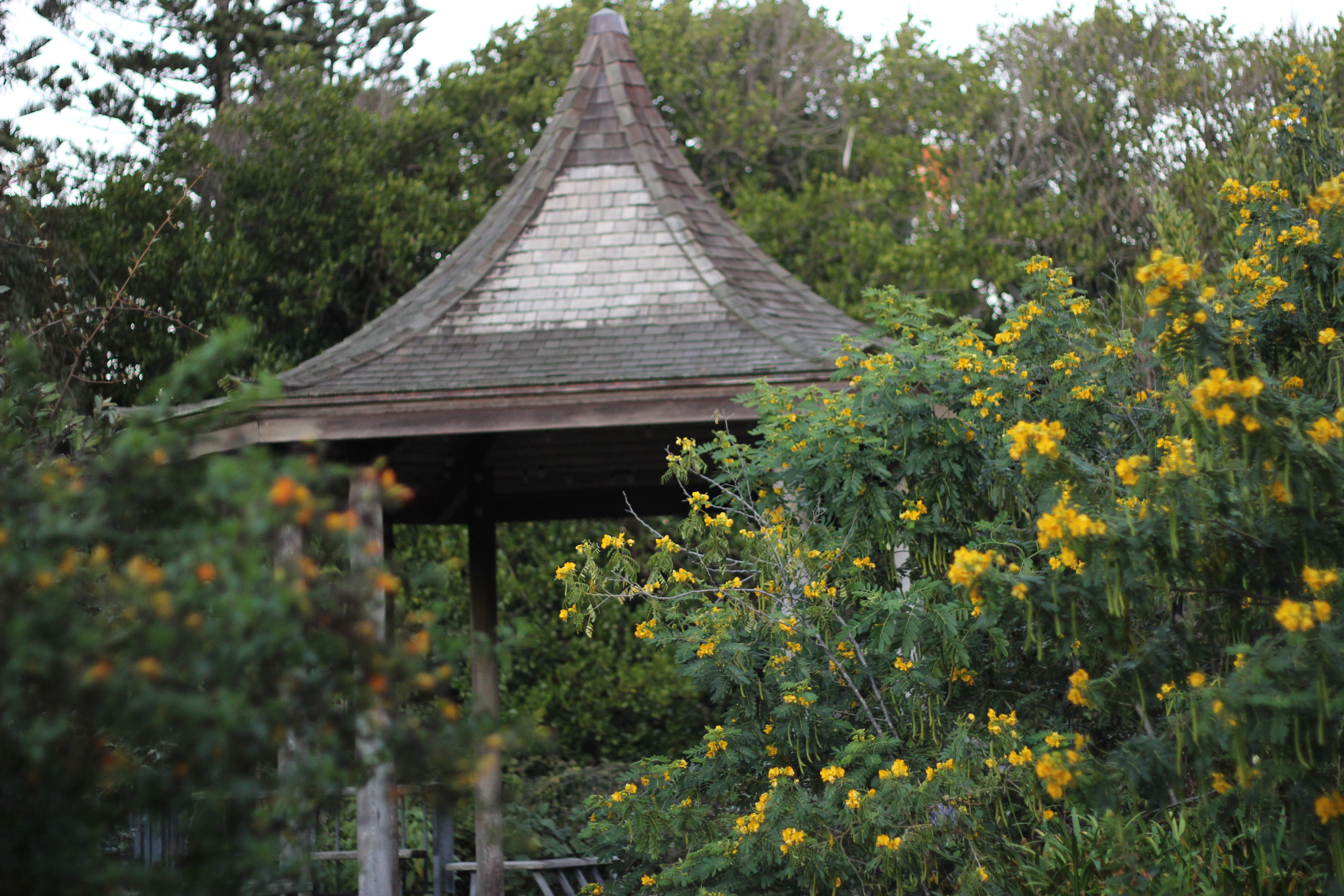 Scenic photo of SF Botanical Garden